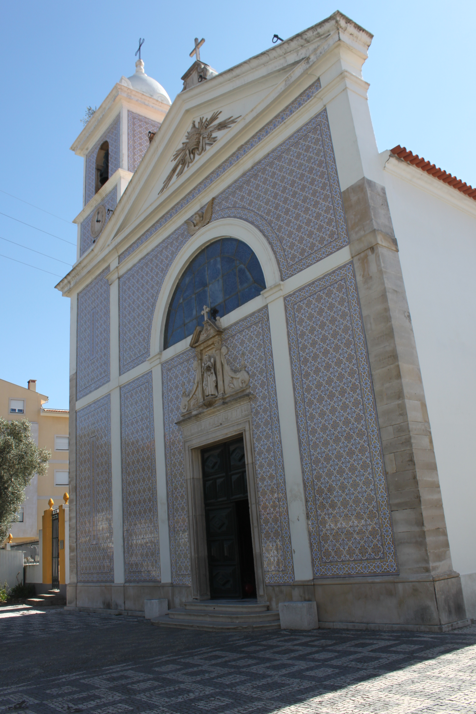 This file was uploaded for Wiki Loves Monuments in Portugal with the unique identifier 3728307.